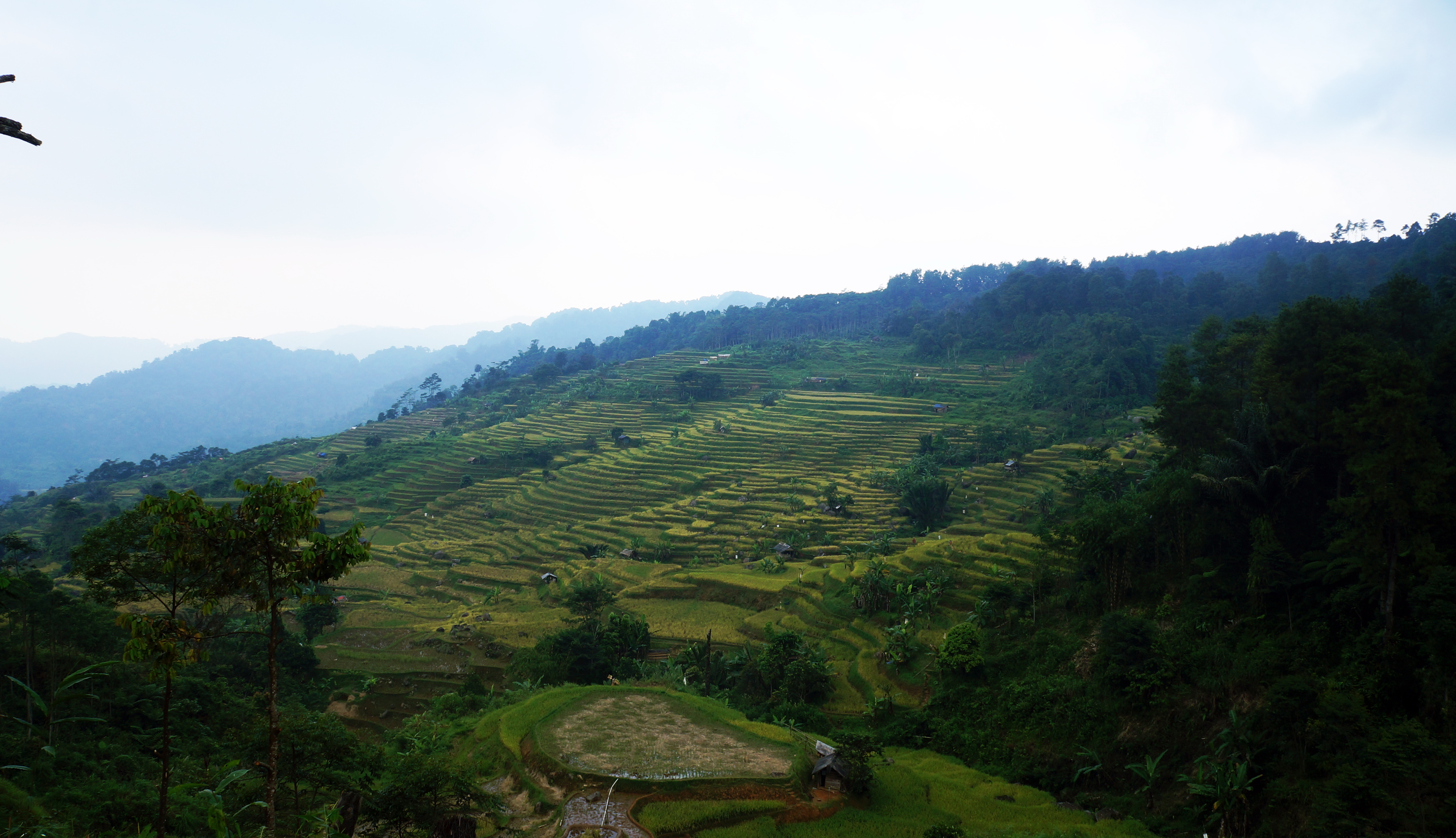 Sengkedan merupakan teknologi konservasi tanah dan air secara mekanis sumber poto : Ade Zaenal Mutaqin, 0251-969-2000 / 0821-1005-7000